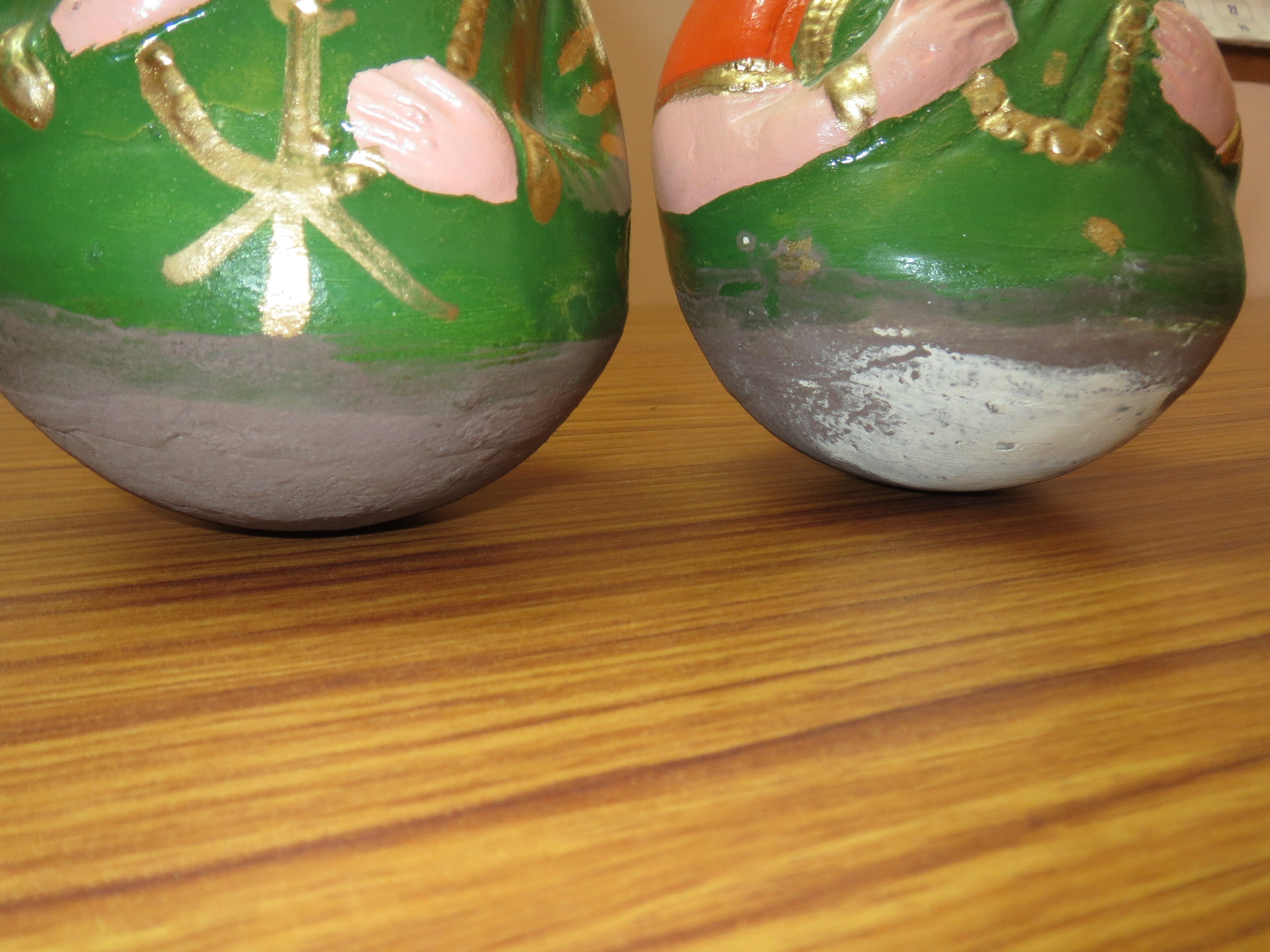 Tanjore doll base